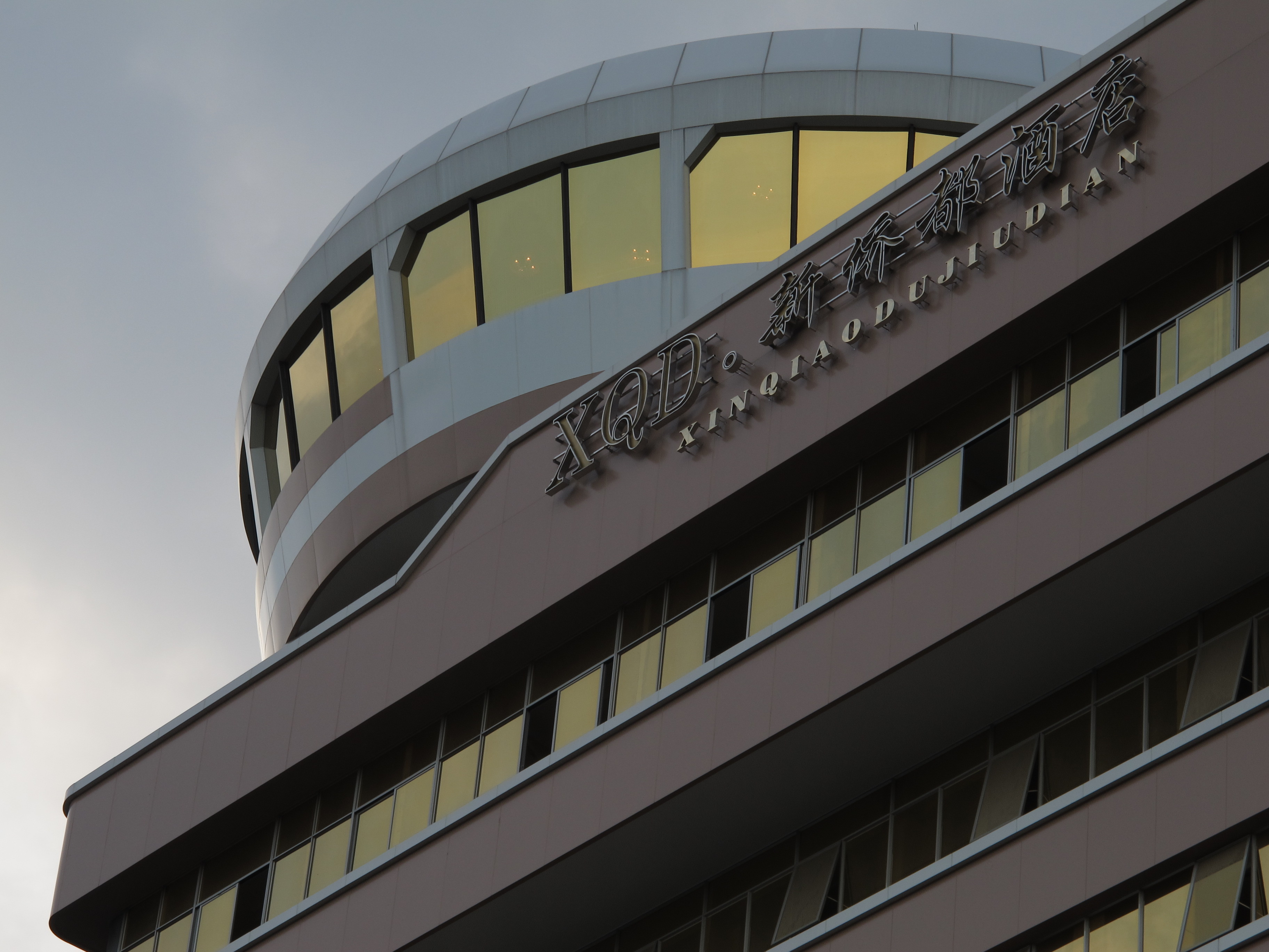 Grand Hotel Xinqiao in Jiangmen, China with a restaurant on the top floor.